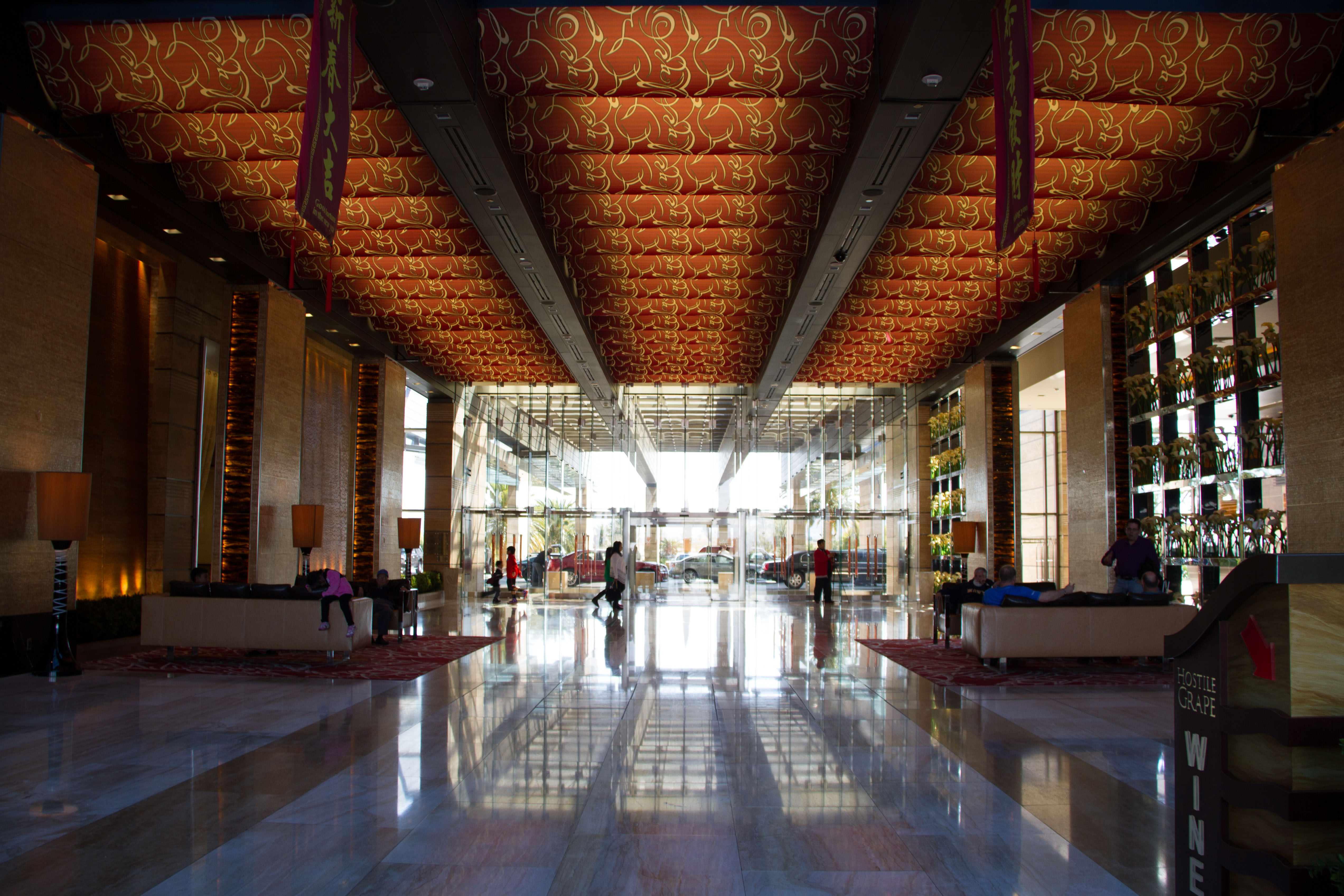 M Resort lobby, Las Vegas Strip, USA.